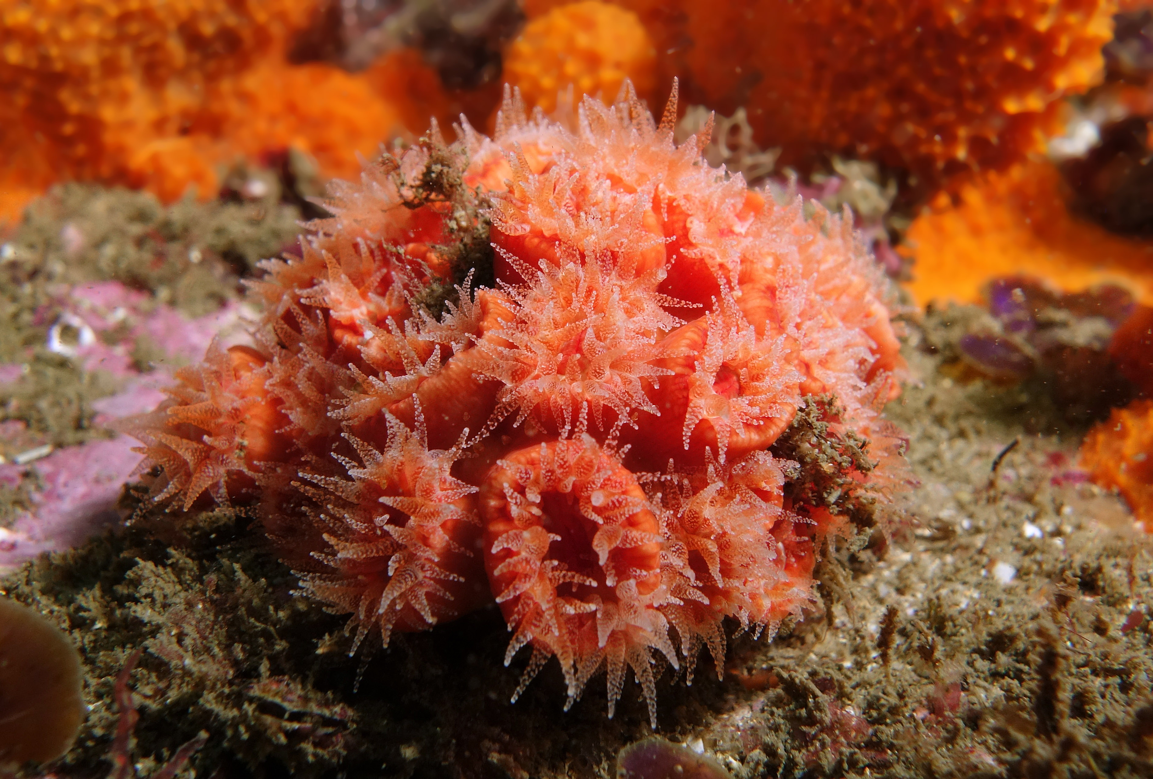 Balanophyllia bairdiana Orange cup coral (Magic Point, Maroubra)